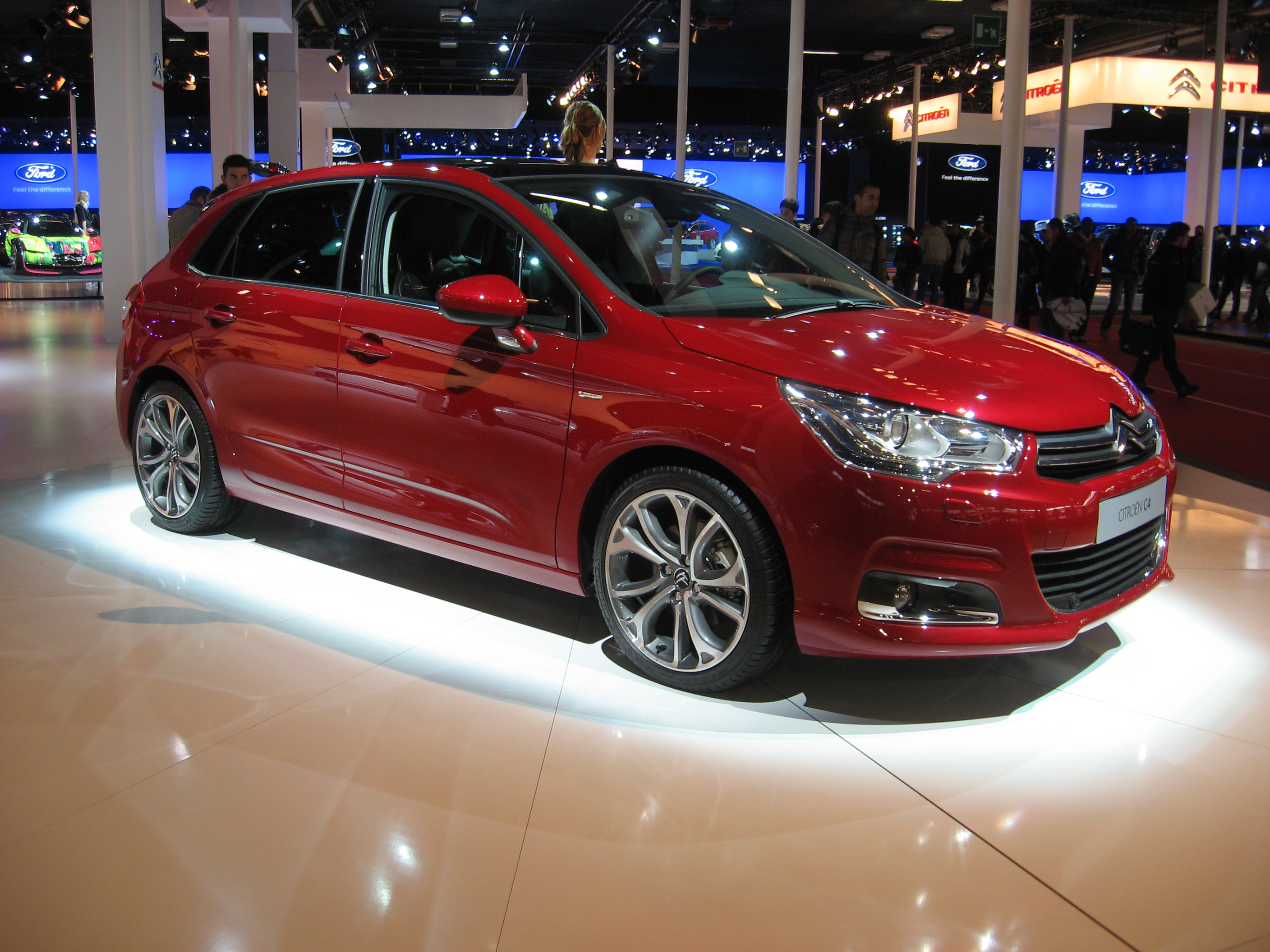 Subject: Citroën C4 Mk2 Date:December 5th, 2010 Event: Bologna Motor Show 2010 Place/Country: Bologna, Italy I release all rights in the public domain.